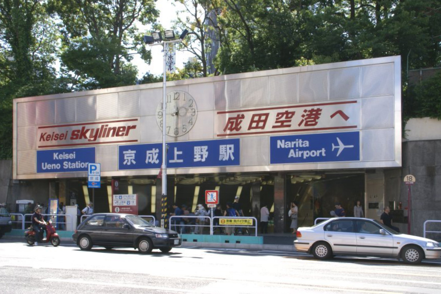 Keisei Ueno Station entrance